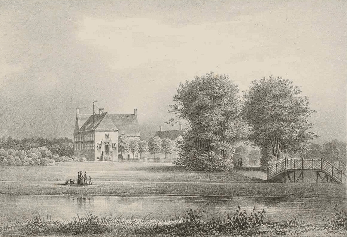 Illustration from Prospecter af danske Herregaarde, volume 1, 1844, showing the manor of Aastrup. Drawing by Ferdinand Richardt, converted to print.